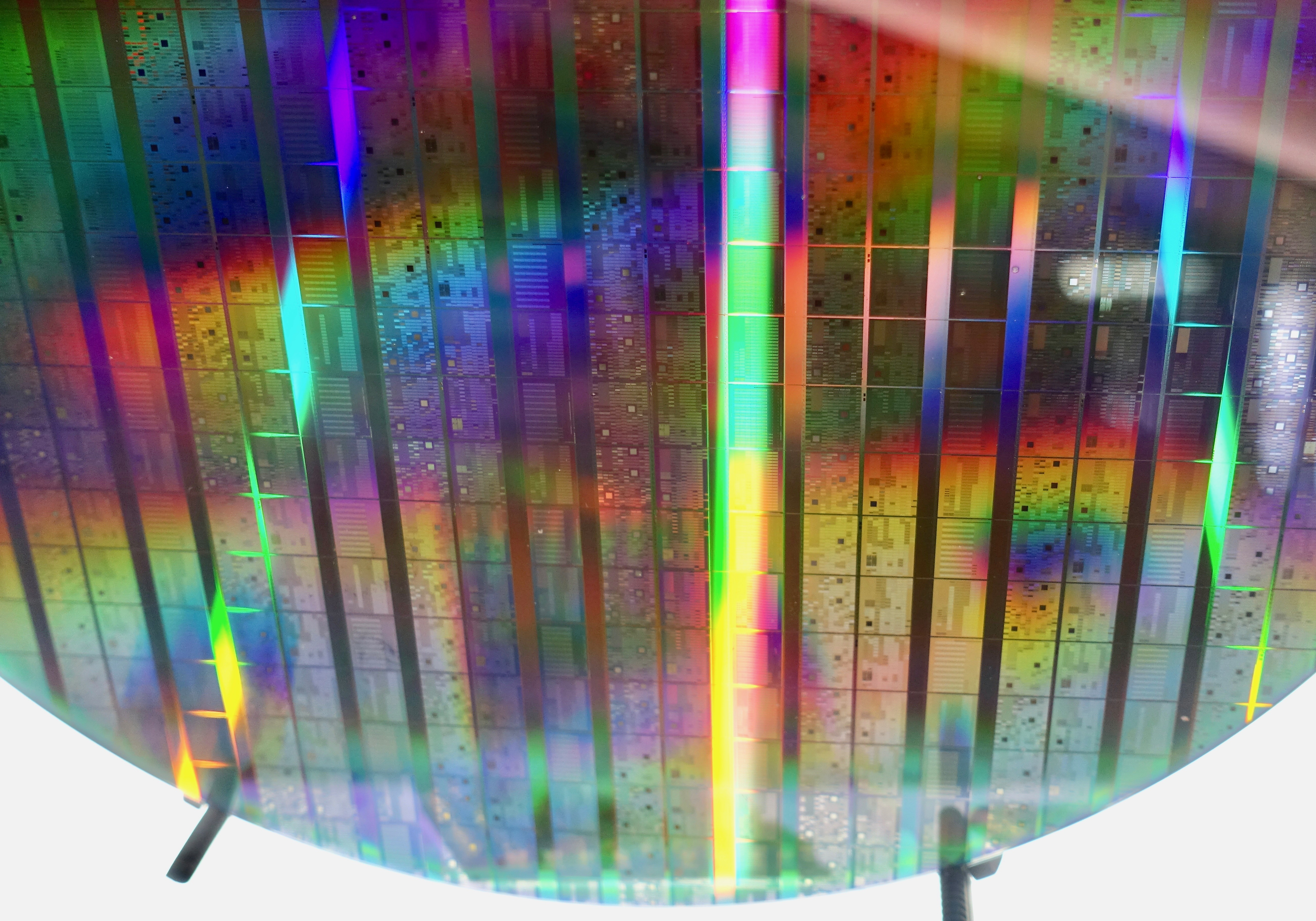 the first time it has been seen in public, so I tried to take a closeup